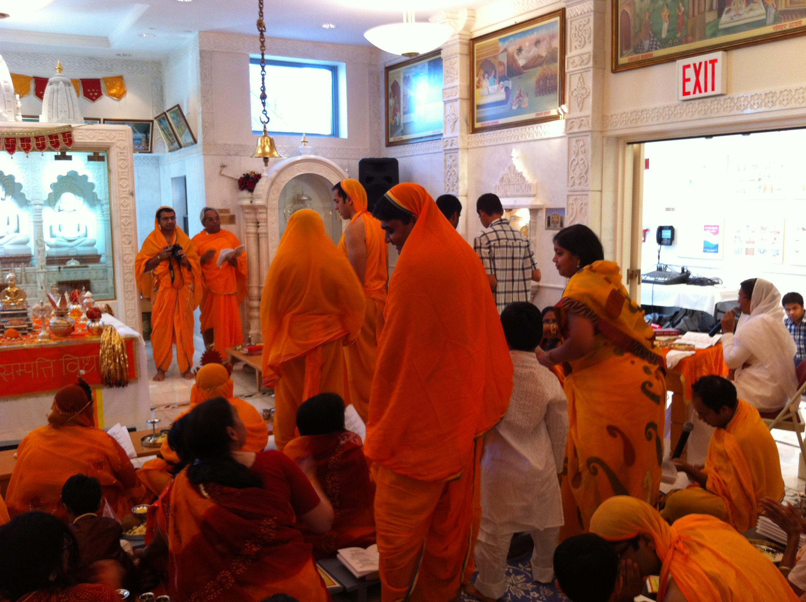 Inside a Jain temple, Jains celebrating the 10 day Das Lakshana (Paryusana) festival. Taken at the Jain Center of America, New York City, New York, USA.